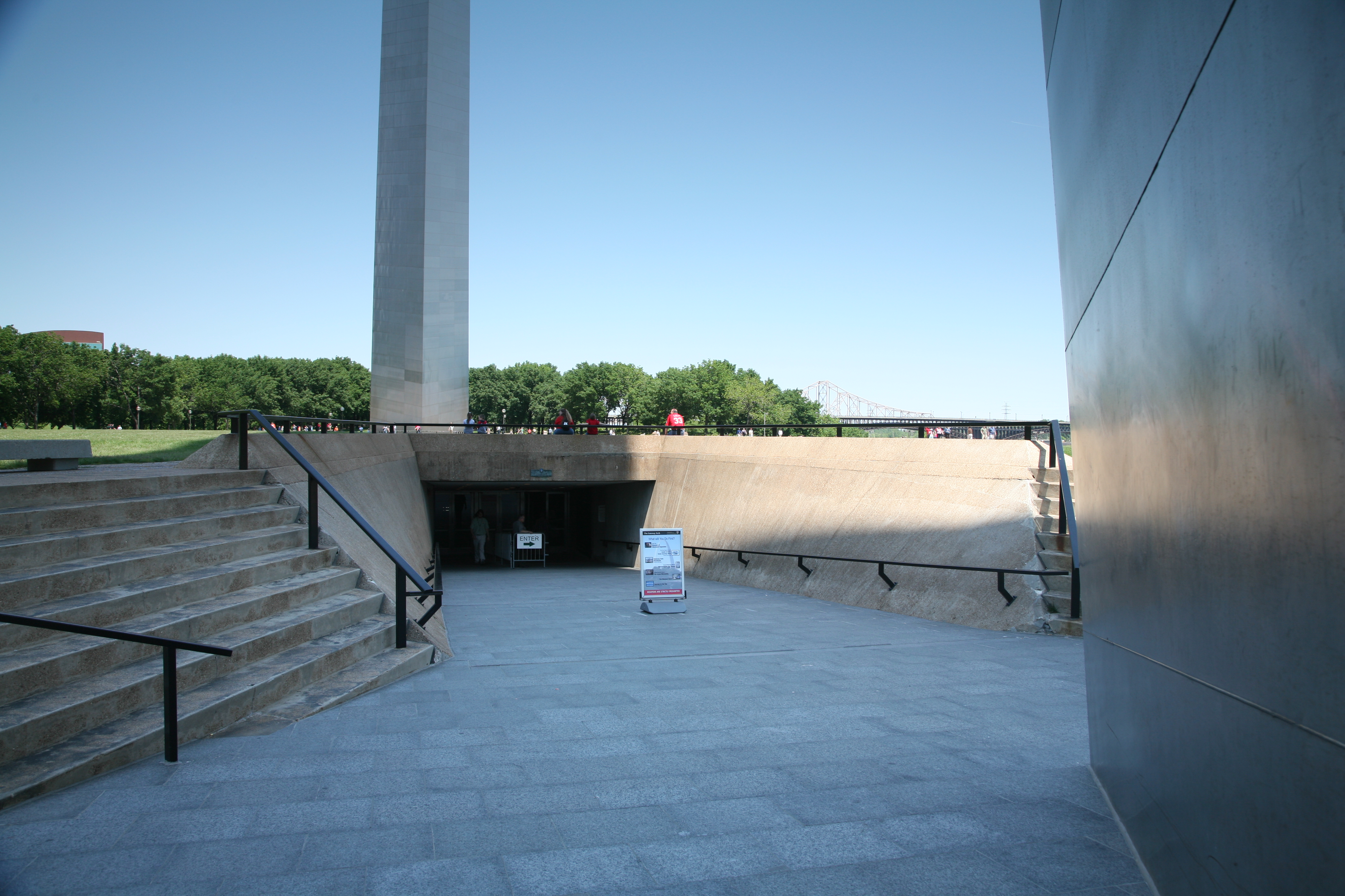 Gateway arch south entrance in St. Louis, Missouri, USA